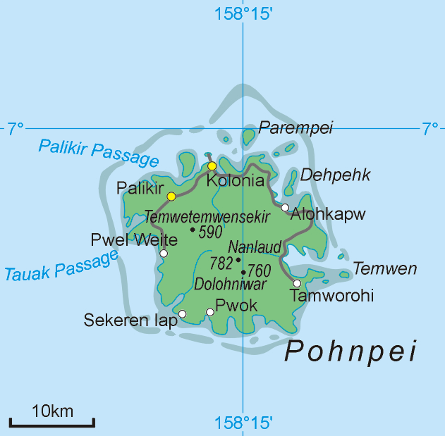 Map of Pohnpei Island, Pohnpei State, Micronesia. Author: Aotearoa from Poland